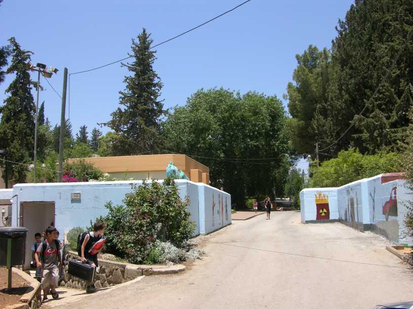 Children leaving the shelter in Kfar Giladi